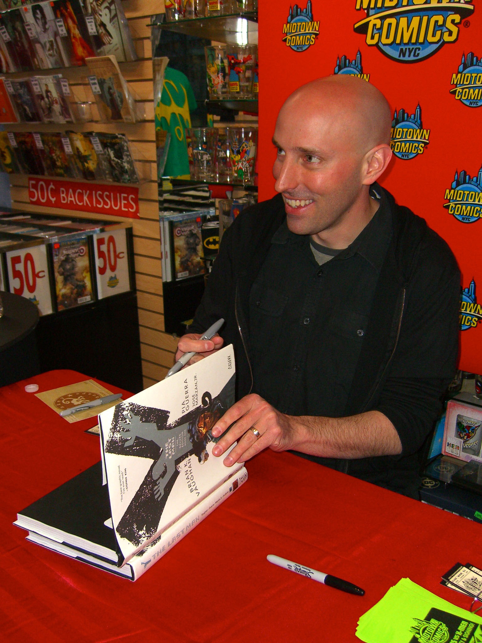 Comics and television writer Brian K. Vaughan at a March 15, 2012 signing for Saga #1 at Midtown Comics Downtown in Manhattan. In the photo, Vaughan is signing a copy of Y: The Last Man, one of the previous series that he created and wrote. This photo was created by Luigi Novi. It is not in the public domain, and use of this file outside of the licensing terms is a copyright violation.